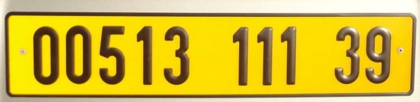 License plates of Algeria